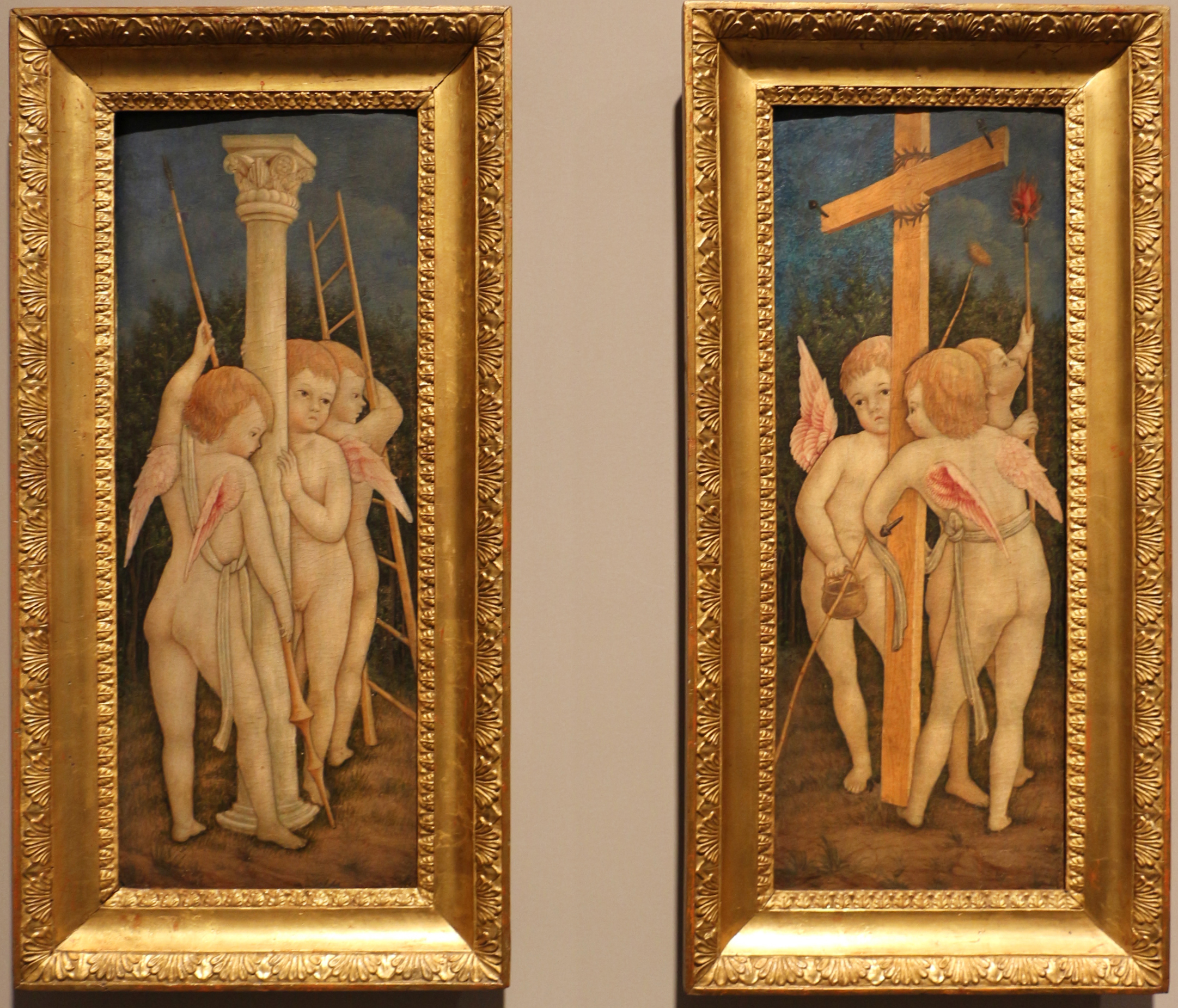 Maestro dei Cartellini